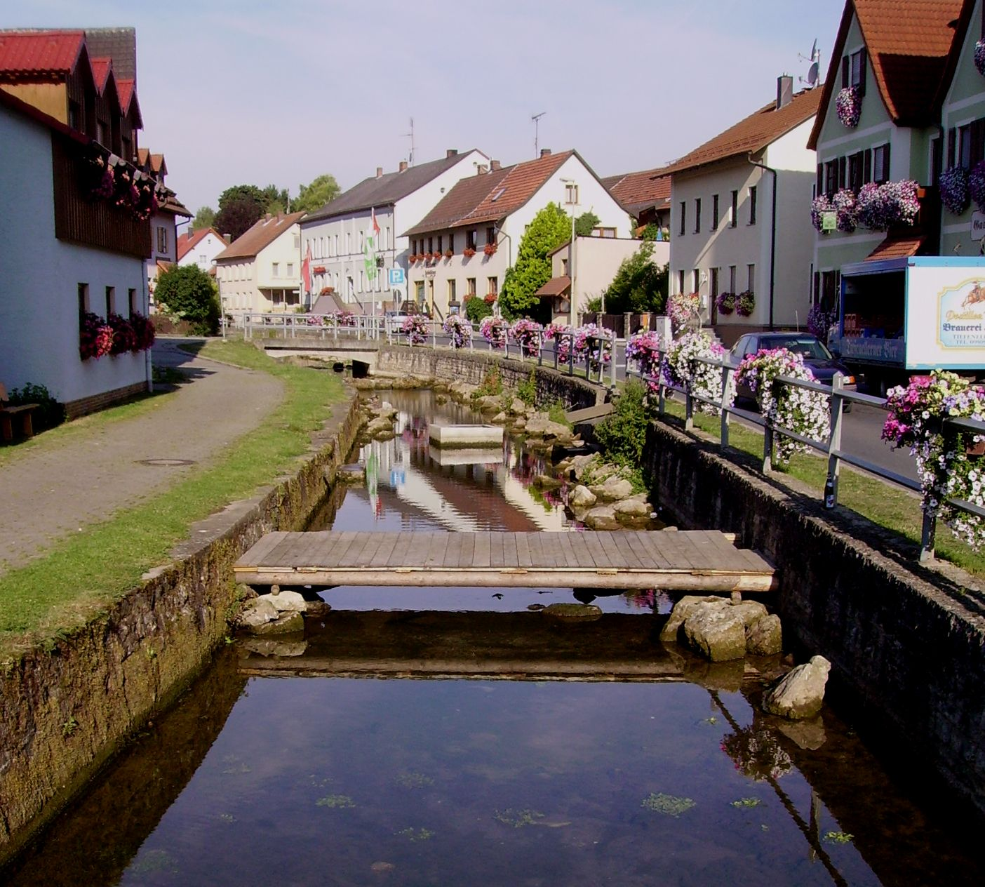 village in Germany